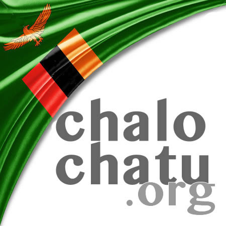 Chalo Chatu official logo